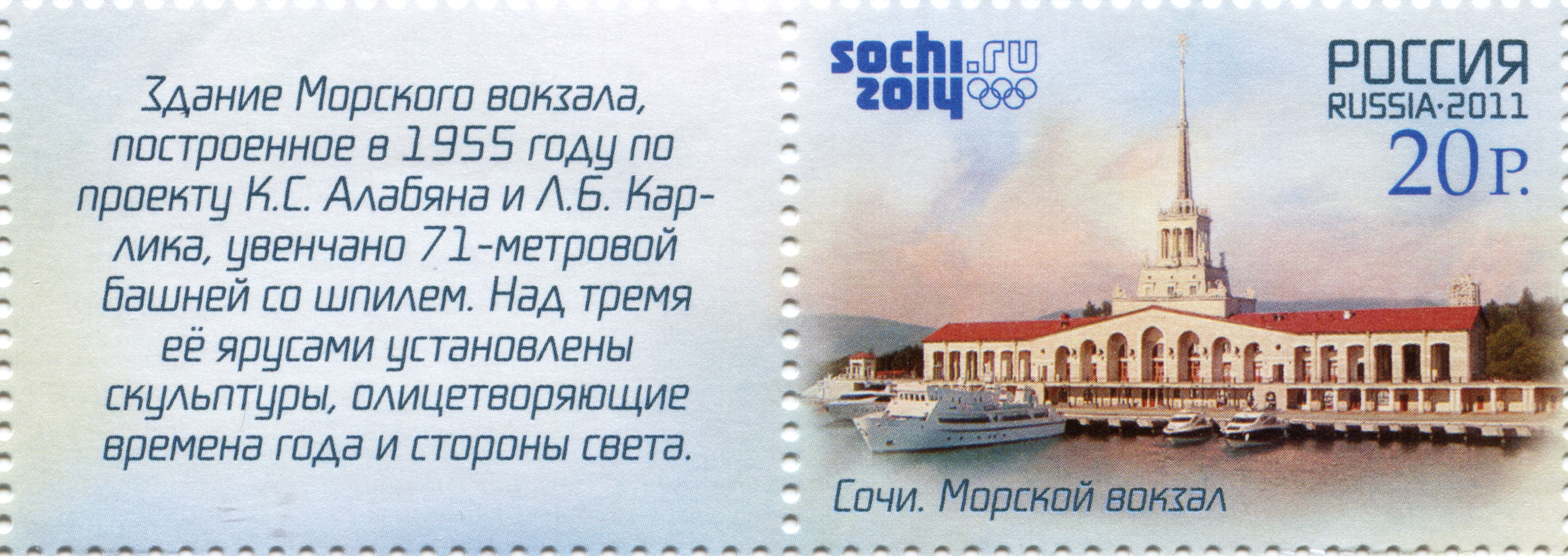 XXII Olympic winger games in Sochi The marine terminal building built in 1955 by K.S. Alabyan and L.B. Karlik is topped with a 71 meter steepled tower. Sculptures embodying seasons and cardinal points are set above the tower's three tiers. The stamp of Russia, 2011, PTC Marka Catalogue 1524-1527.